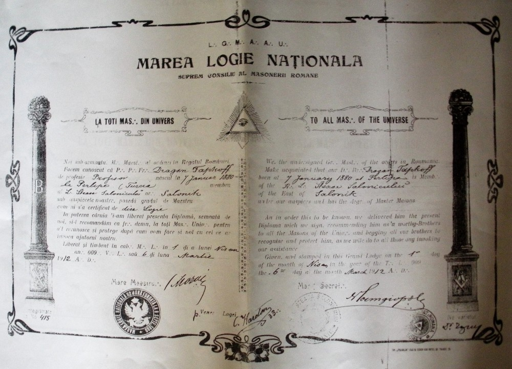 Dragan Tapkoff Diploma from the Salonique Masonic Lodge, 6 Mach 1912